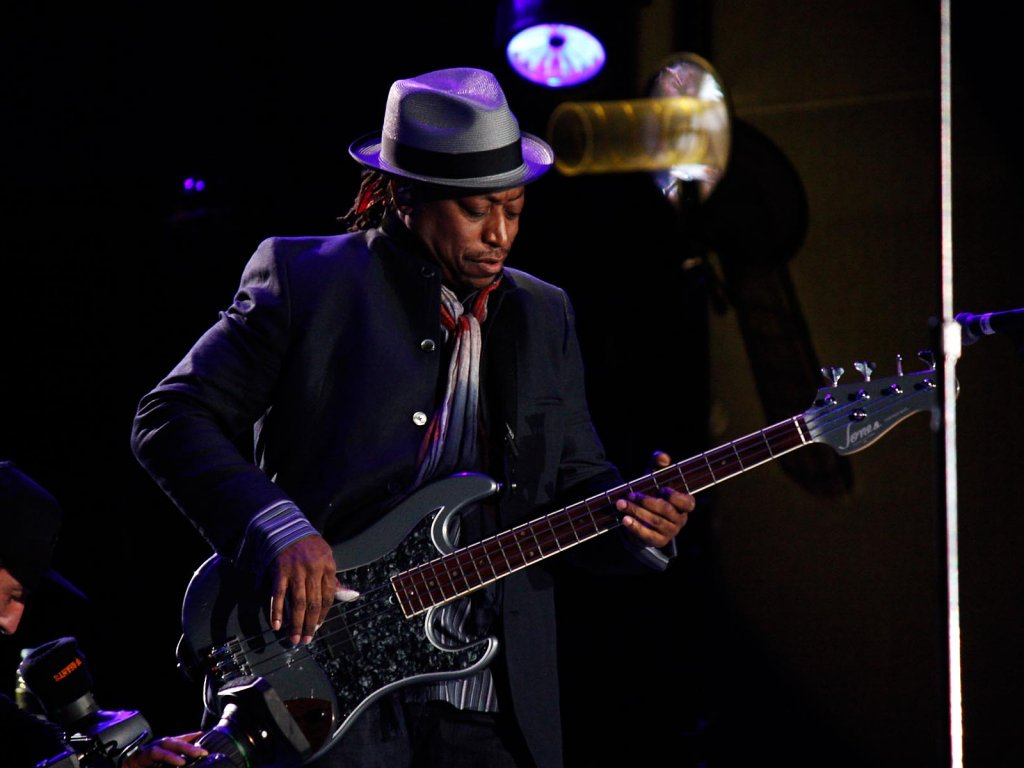 Darryl Jones - Rock in Rio 2014